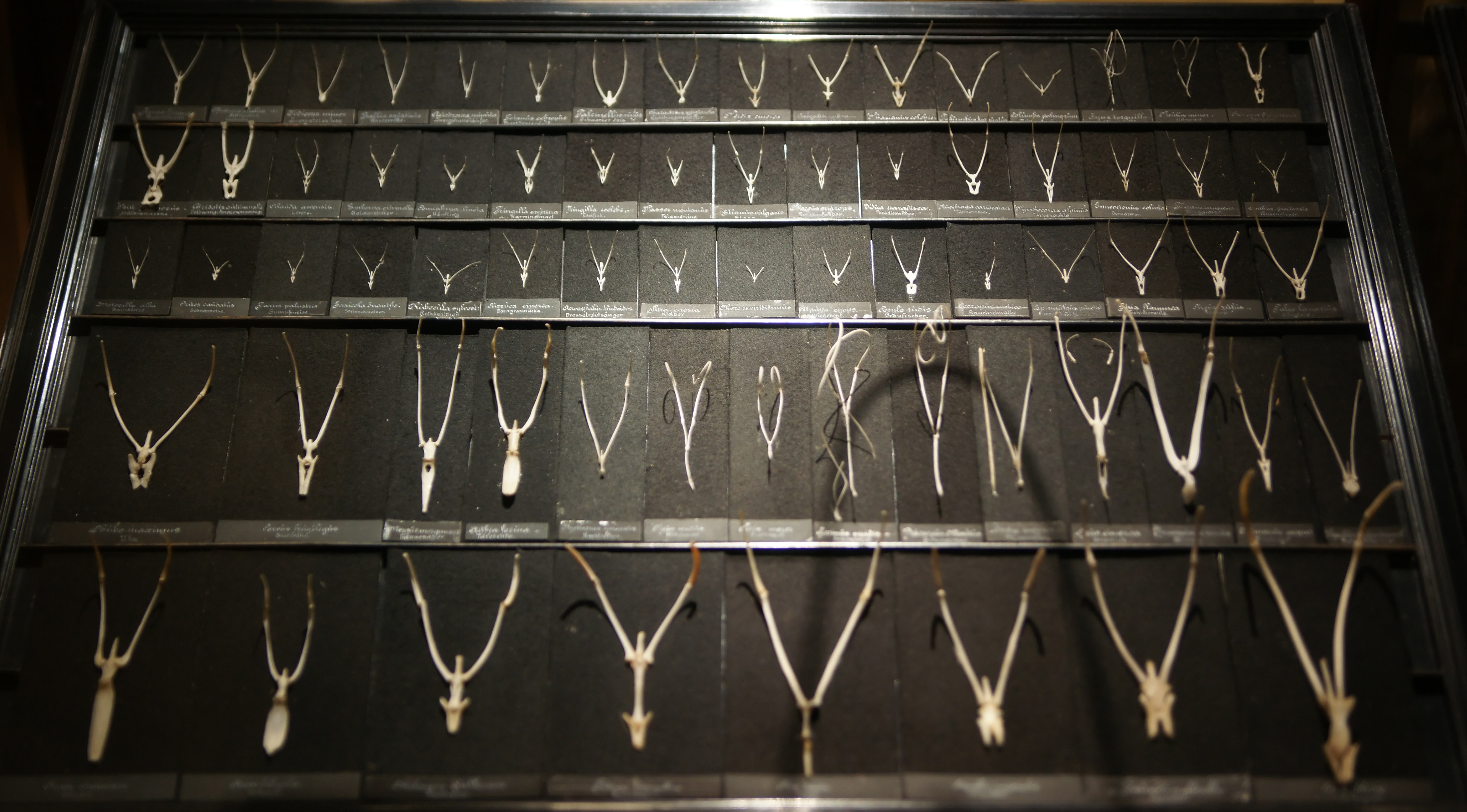 Hyoid bones of birds, Naturhistorisches Museum Wien